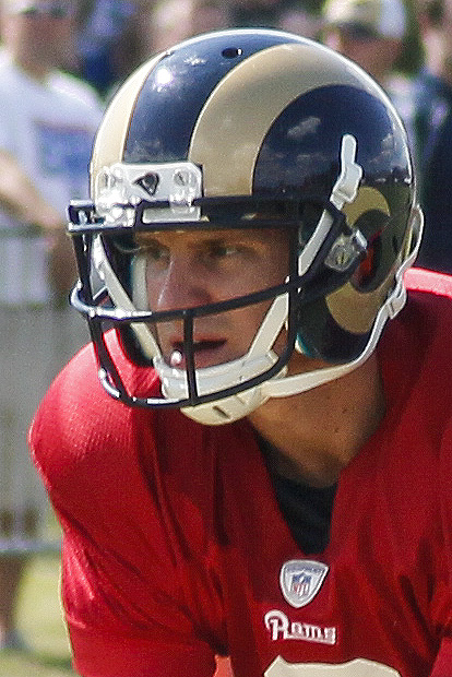 Rams quarterback Austin Davis.